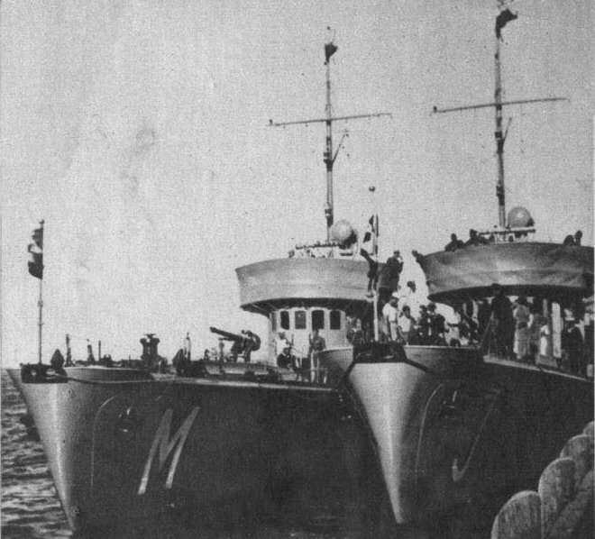 Polish minewsweepers ORP Mewa and Jaskółka, 1936